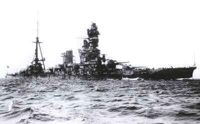 Japanese battleship Hyuga in the 1920's